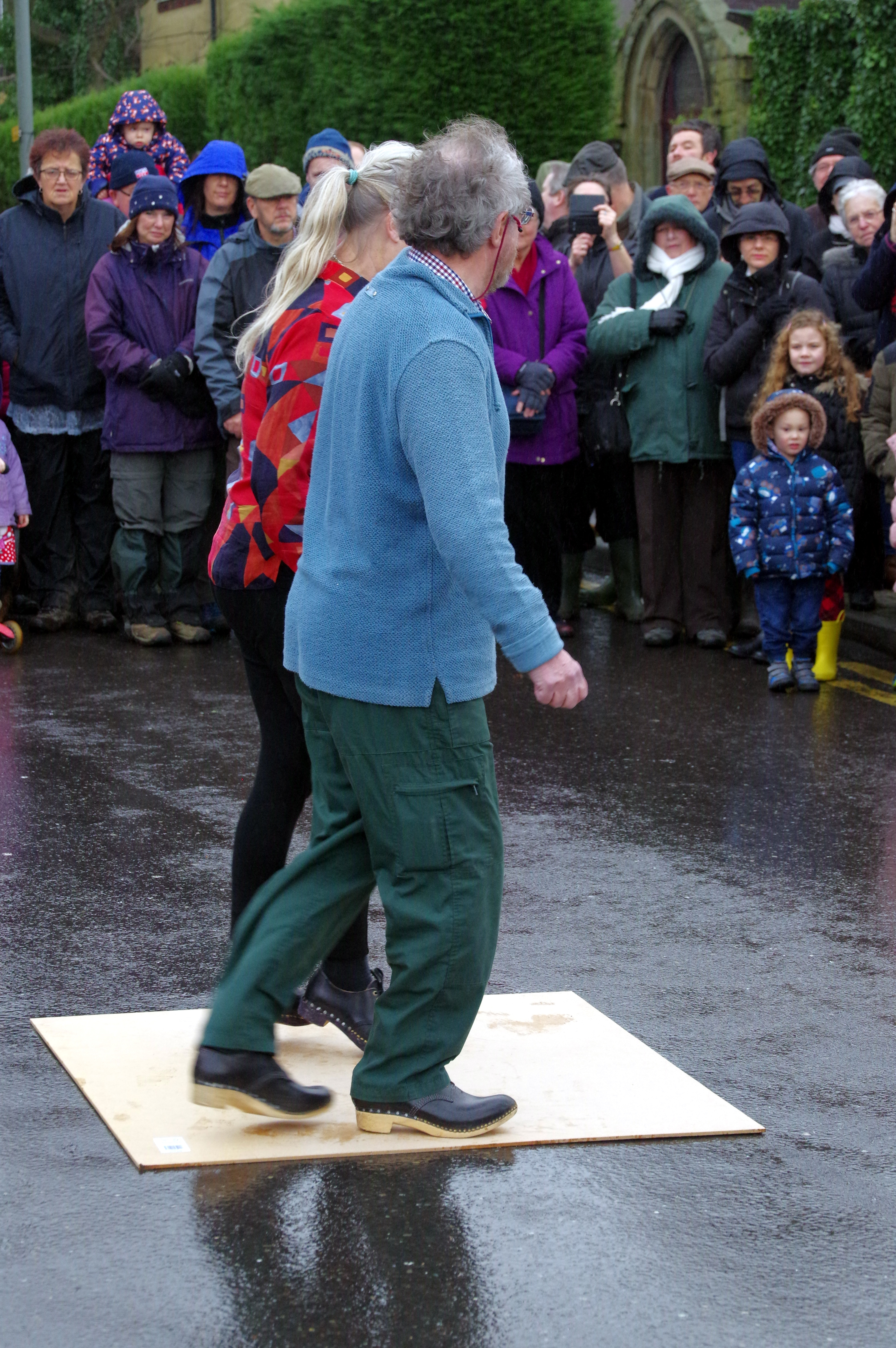 26.12.15 Grenoside Sword and Clog DancingDancing